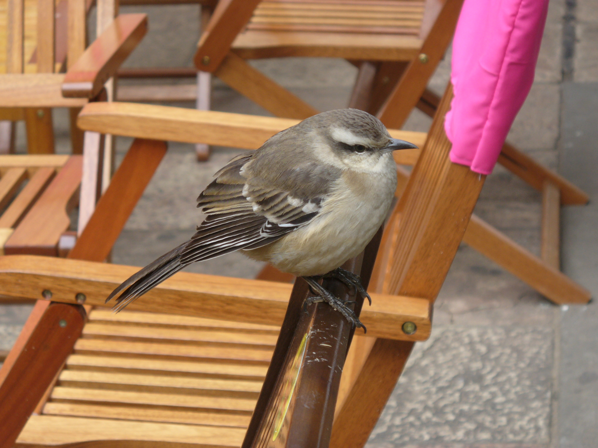 A Chalk-browed mockingbird (Mimus saturninus) during the winter in Tigre, Argentina